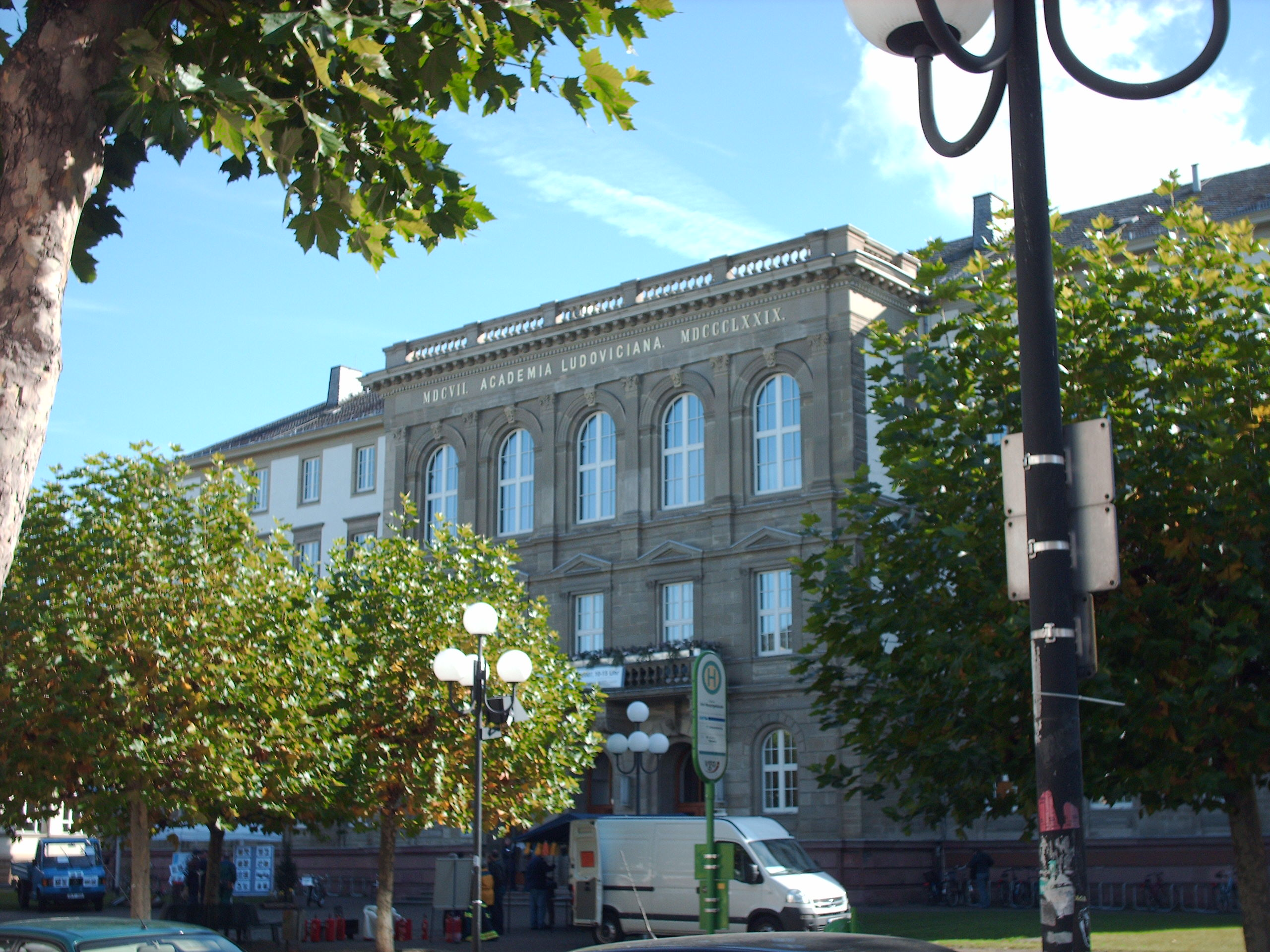 Gießen university’s main building, Gießen, Germany